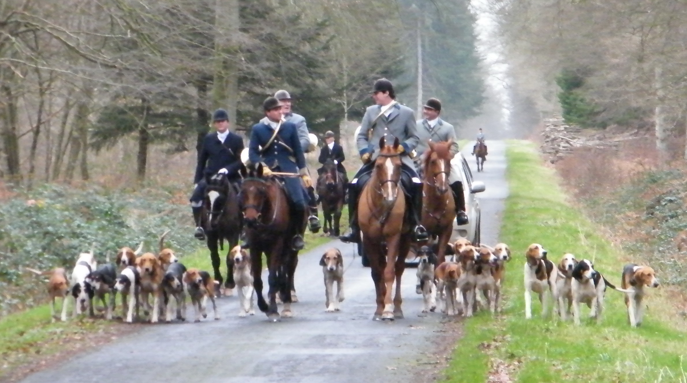 Chasse à courre en forêt de Crécy.